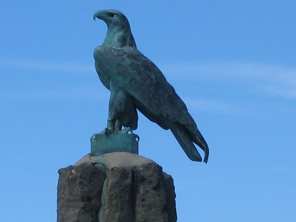 Closeup of the Wasserkuppe Aviators Monument